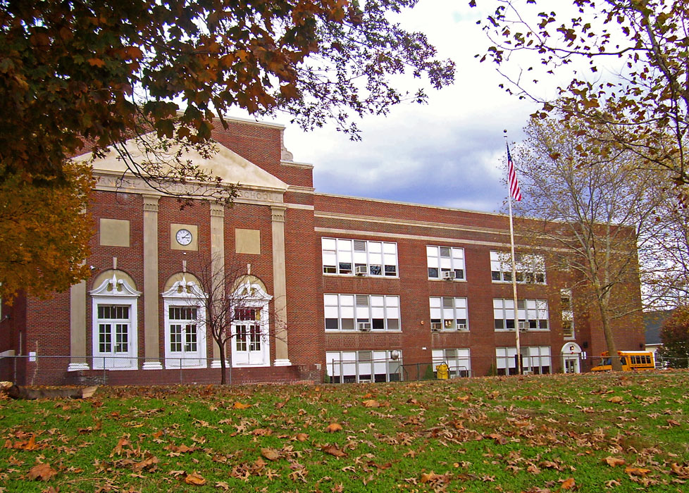 Photographed by Daniel Case 2006-11-02